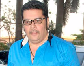 Shehzad Khan at Celebs at late Naveen Nischol's prayer meet